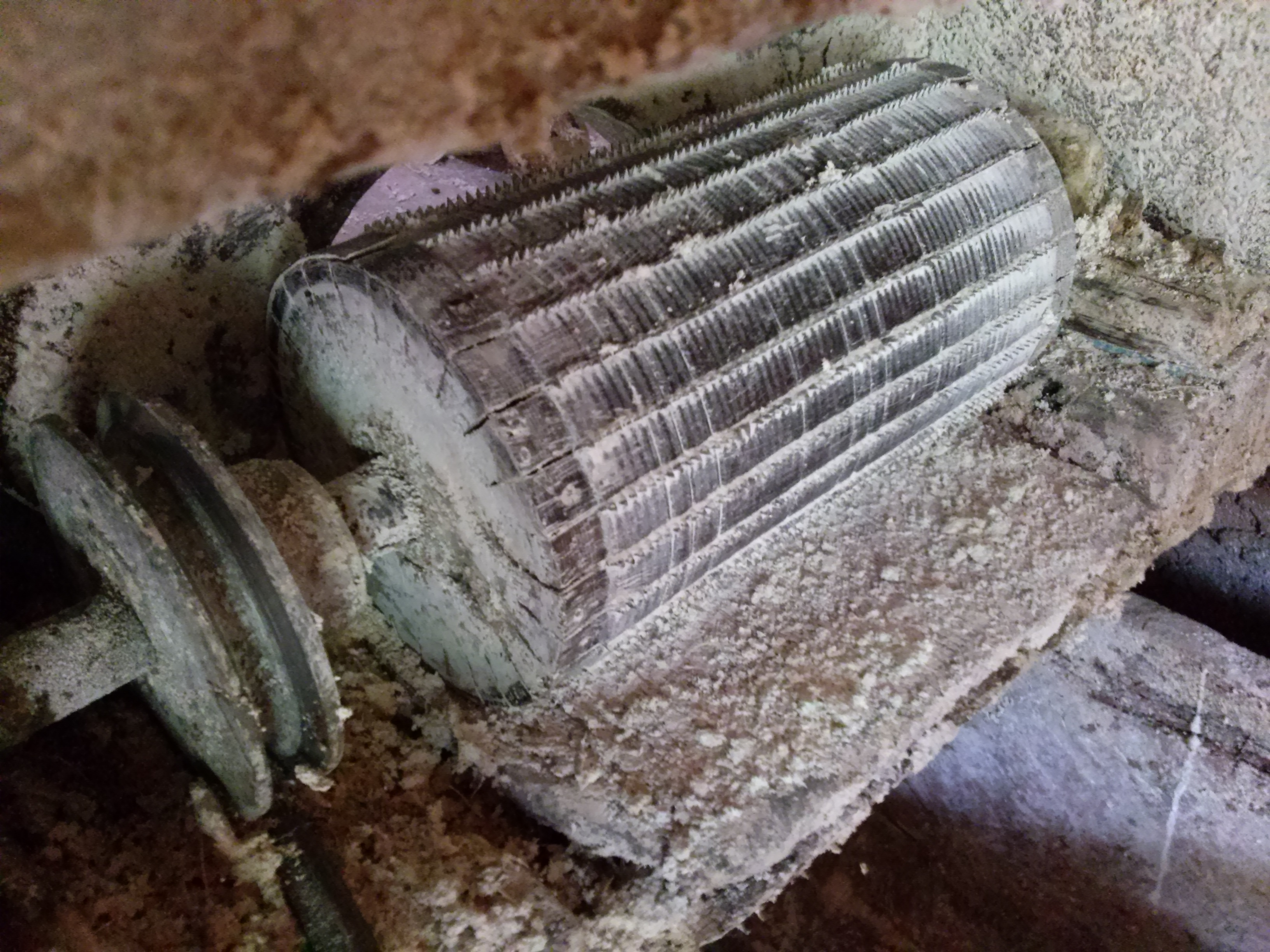 Bolin or ball or caititu used to grate cassava flour house. Powered by a engine or manual lever, it rotates in high rotation, which causes the steel serrations to grate the manioc into it.